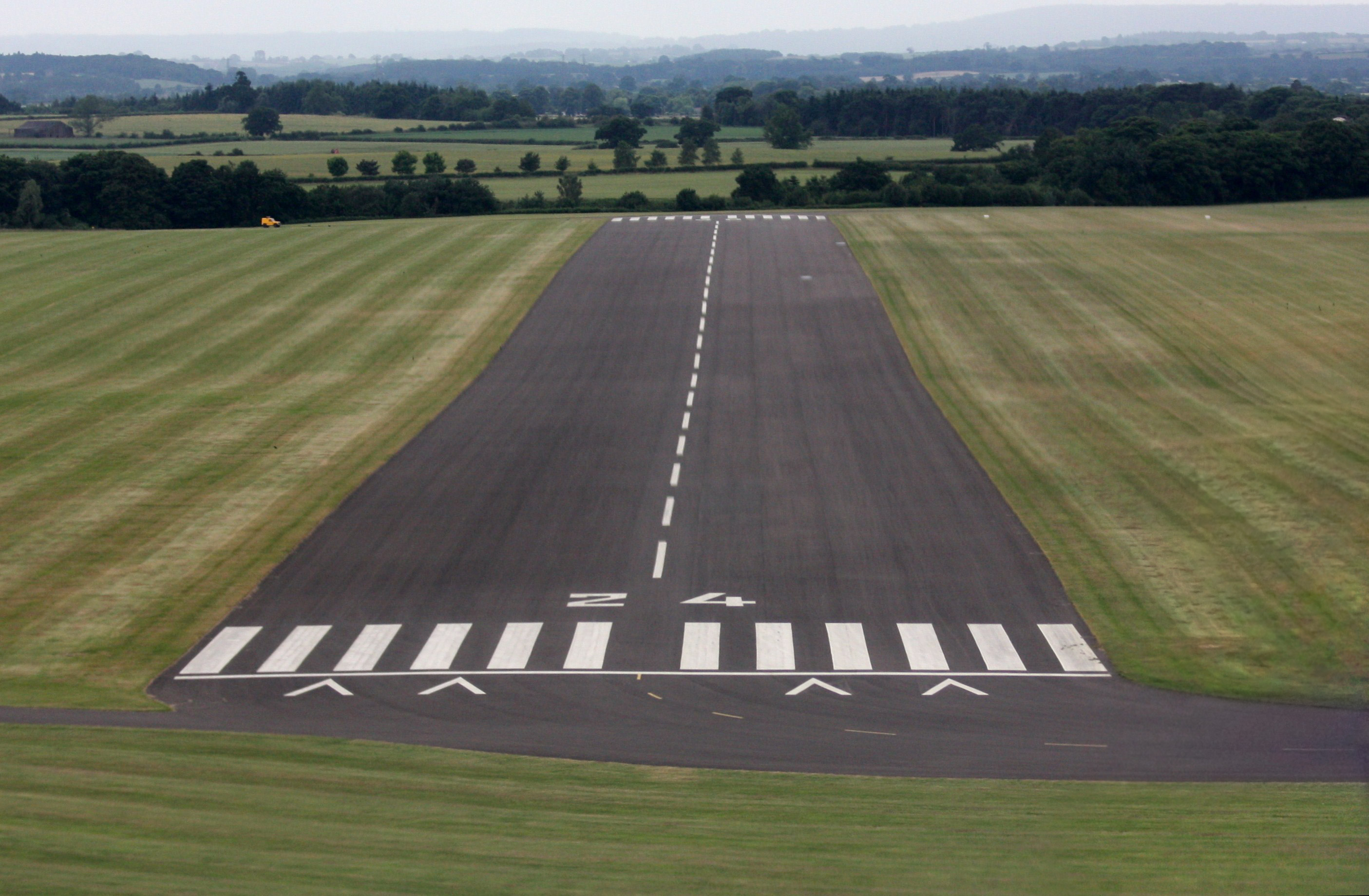 A view of runway 24 at RAF Cosford, Shropshire, UK, whilst on final approach in a Grob Tutor T1 of UBAS.